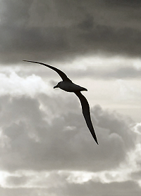 Albatross off Stewart Island, New Zealand